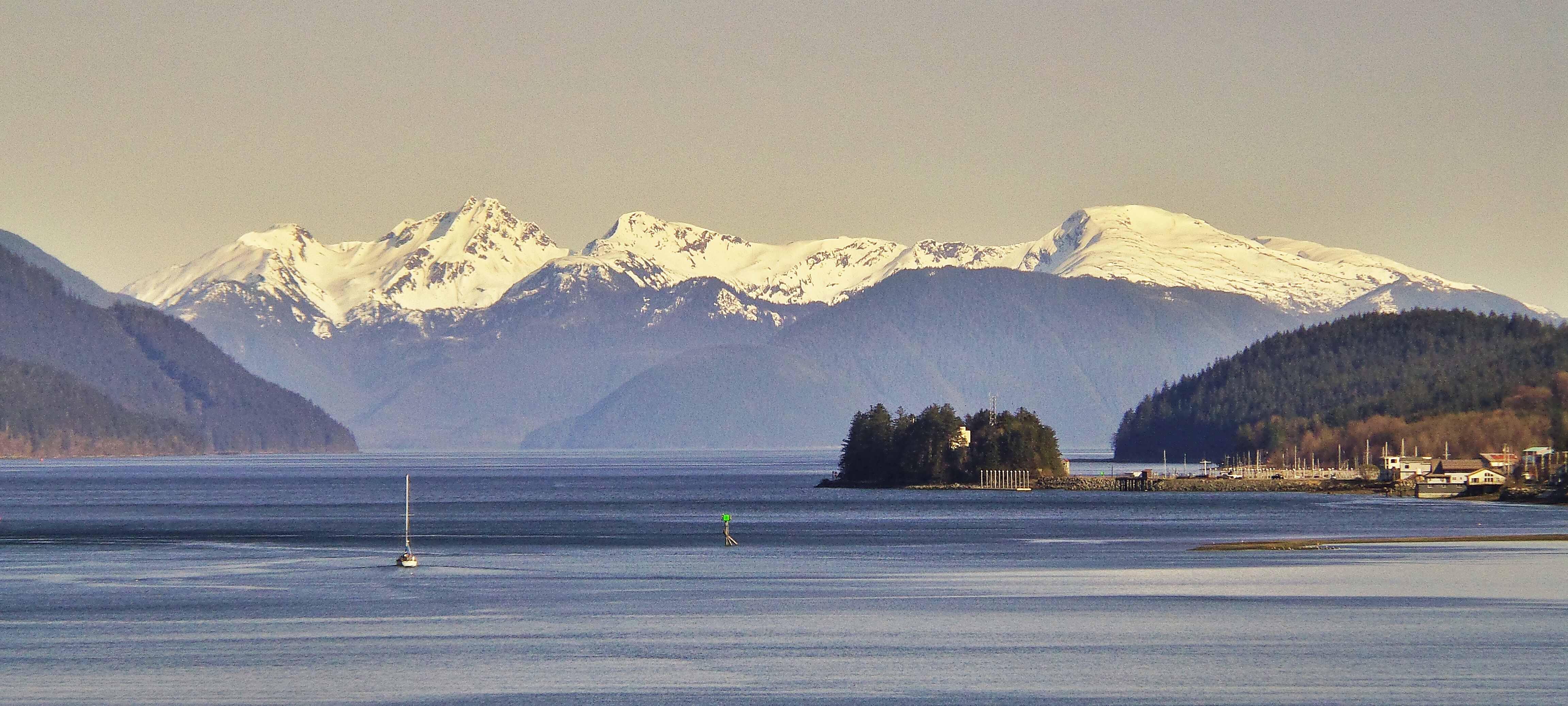 Arthur Peak (right) seen looking down Gastineau Channel